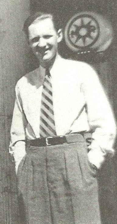 Kai Christian Middelthon Holst, (1913-1945) the picture was taken 22 June 1945, is printed in the book Fra varm til kald krig (translation from Norwegian "From warm to cold war") and is from the collection of fellow resistance fighter Erik Myhre (1900-1983)